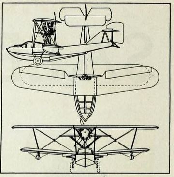 3-view of Amphibions N2-C Neptune